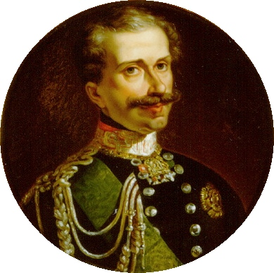 King Charles Albert of Sardinia (1798-1849)